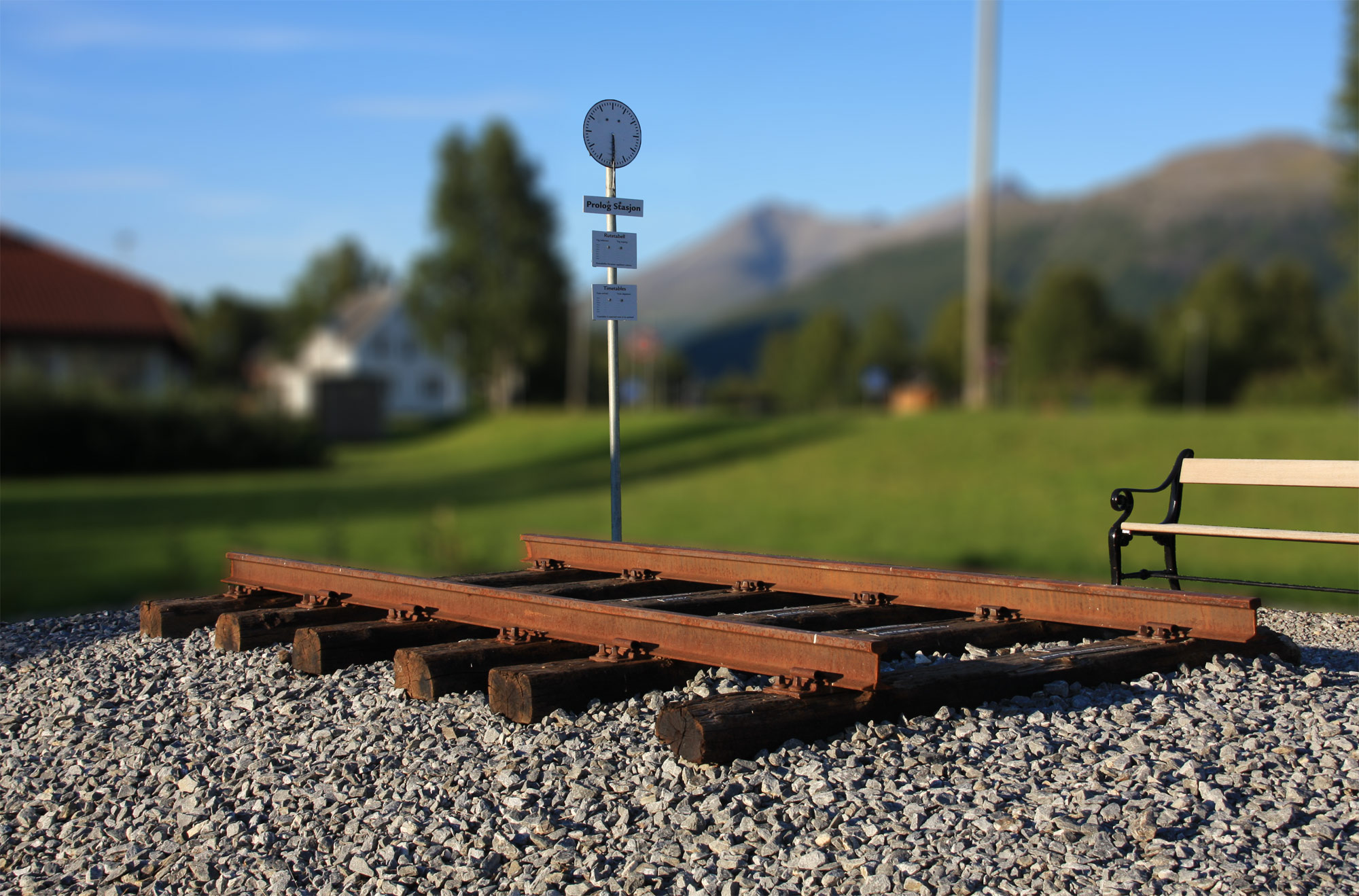 The Prolog Station. Artist image of the first station at the Tromsø railway